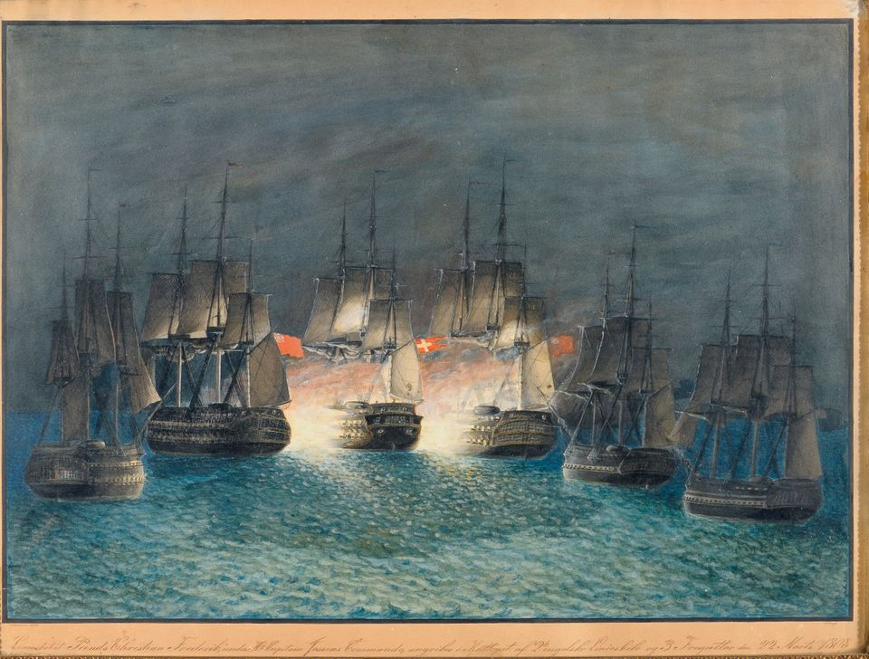 Battle of Zealand Point. 22 March 1808: The only naval ship of the Danish navy, Prince Christian Frederik, was surrounded by the English fleet during the Battle of Sealand. "They played everything over the open grave and the waves were made so red," Grundtvig wrote after the Danes had lost against the odds. The surviving Danish sailors were taken prisoner and taken to the prison in Chatham outside London. (Watercolor by A G. Gross / The Maritime Museum, Helsingør).